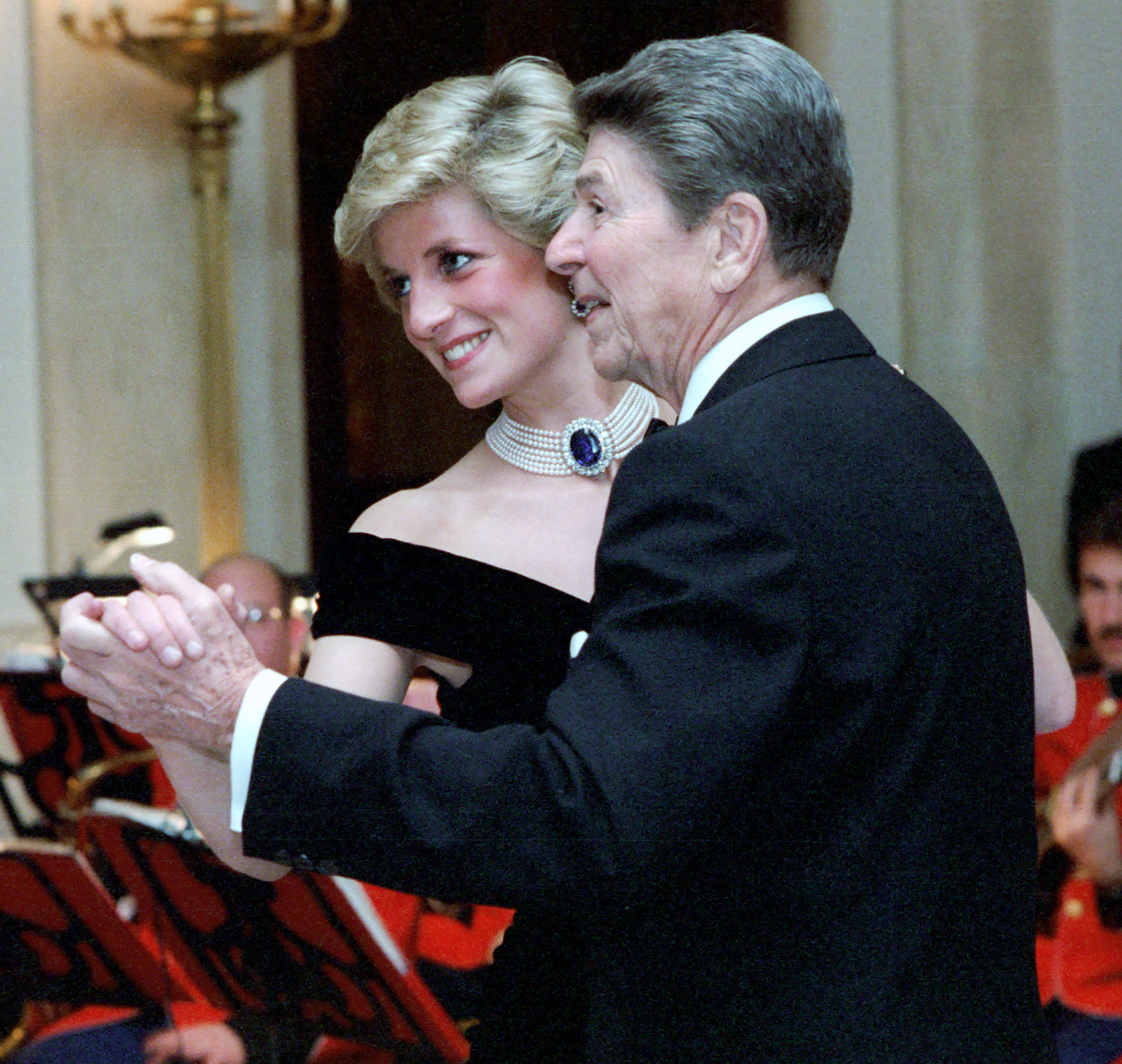 11/9/1985 President Reagan dancing with Princess Diana at a dinner for Prince Charles and Princess Diana of the United Kingdom in Cross Hall